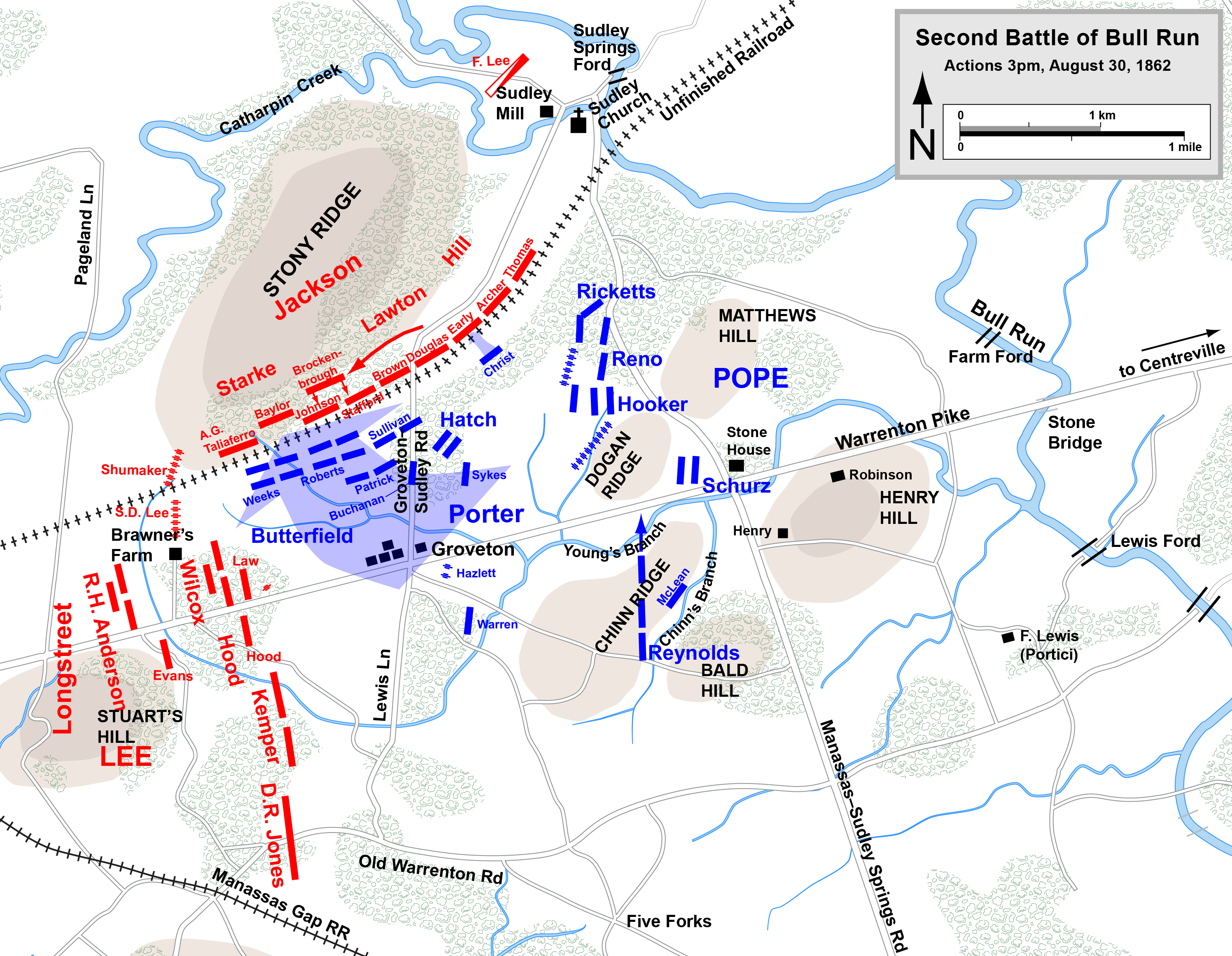 Map of the Second Battle of Bull Run of the American Civil War, drawn in Adobe Illustrator CS6 by Hal Jespersen. Graphic source file is available at